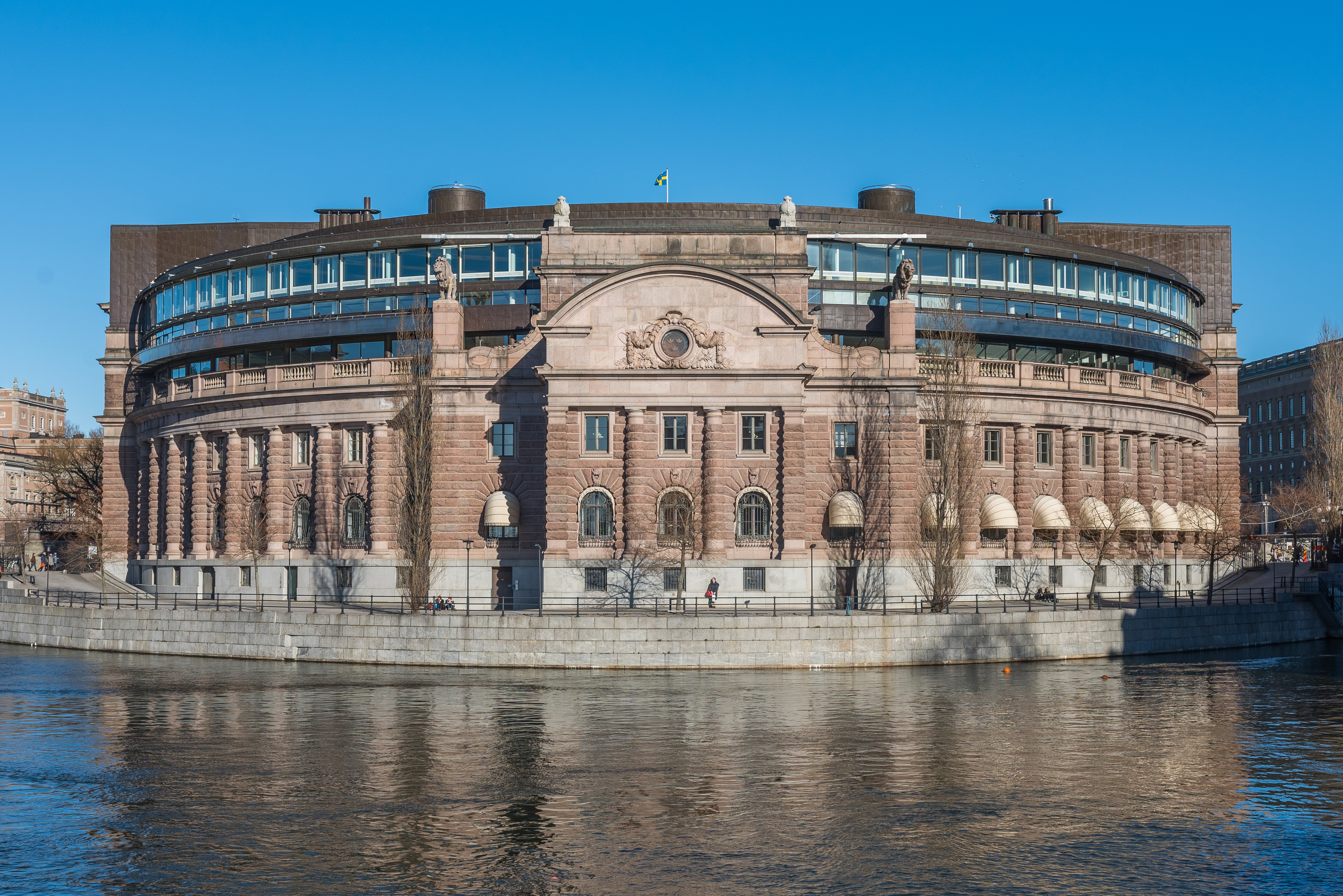 Stockholm March 2015